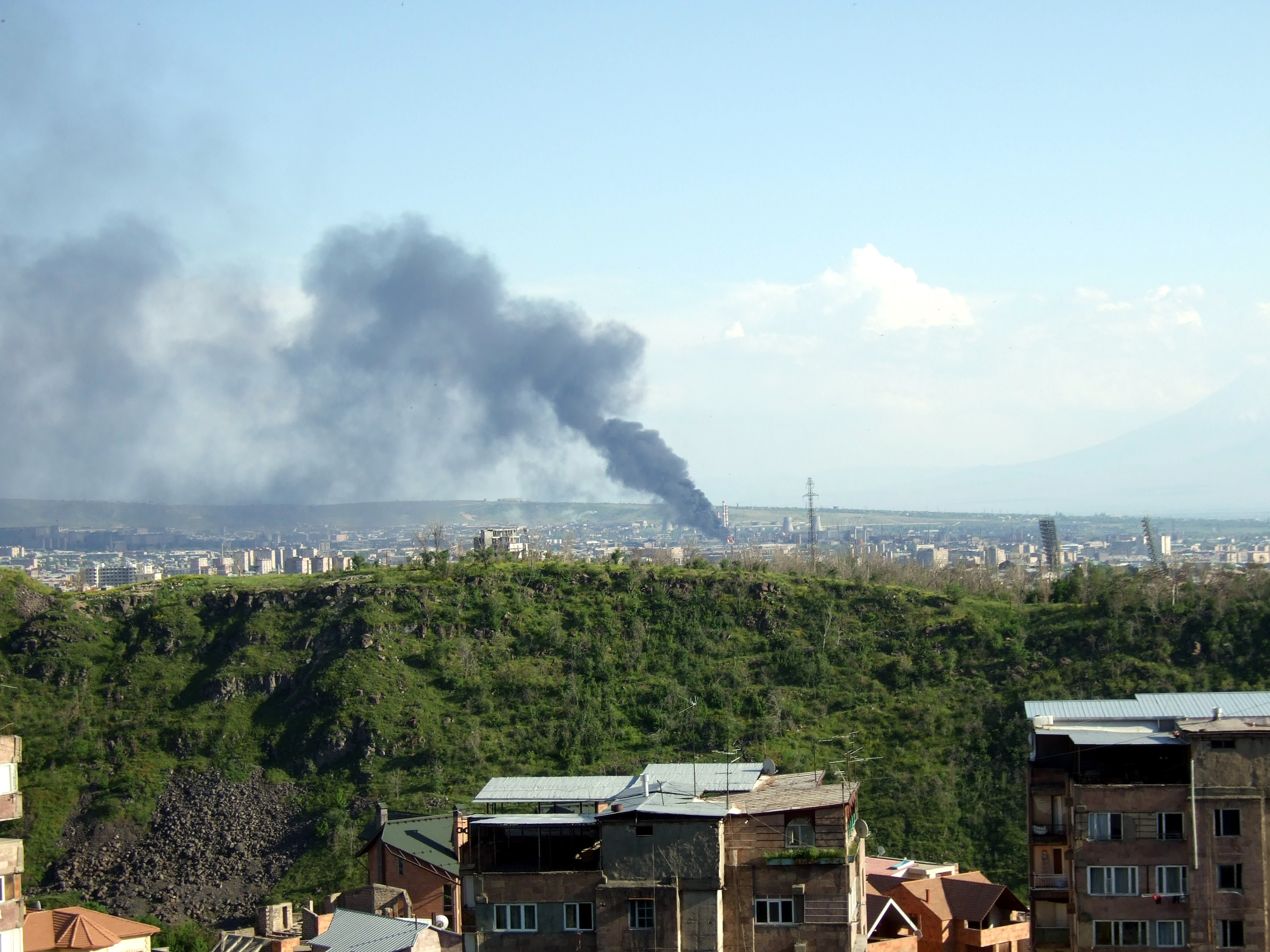 Smoke from Nairit's May 2009 accident rising in the sky